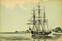 The Japanese warship Kenkou. From 1895 "大日本帝国海軍帖". =